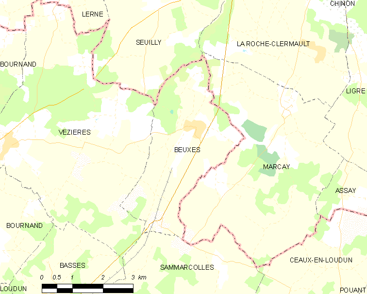 Map of French municipality Beuxes